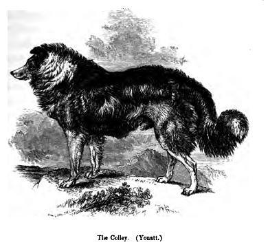 Scotch sheep-dog or Colley (collie)